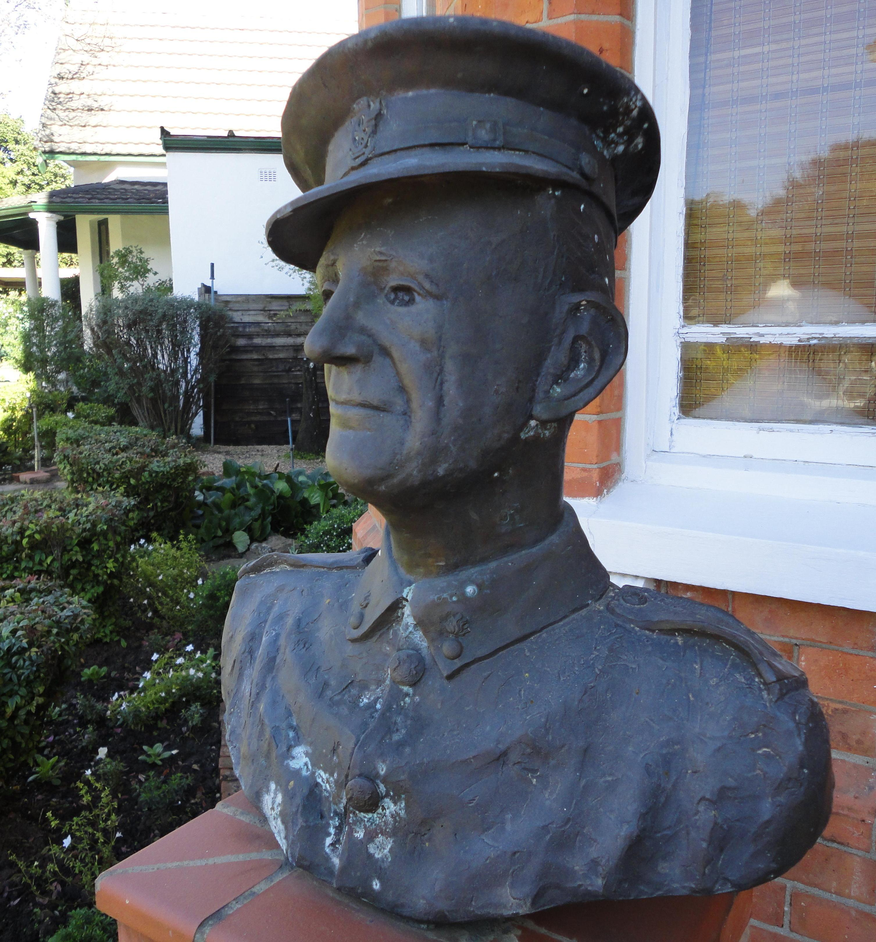 Vic Clapham bust at Comrades House, Pietermaritzburg